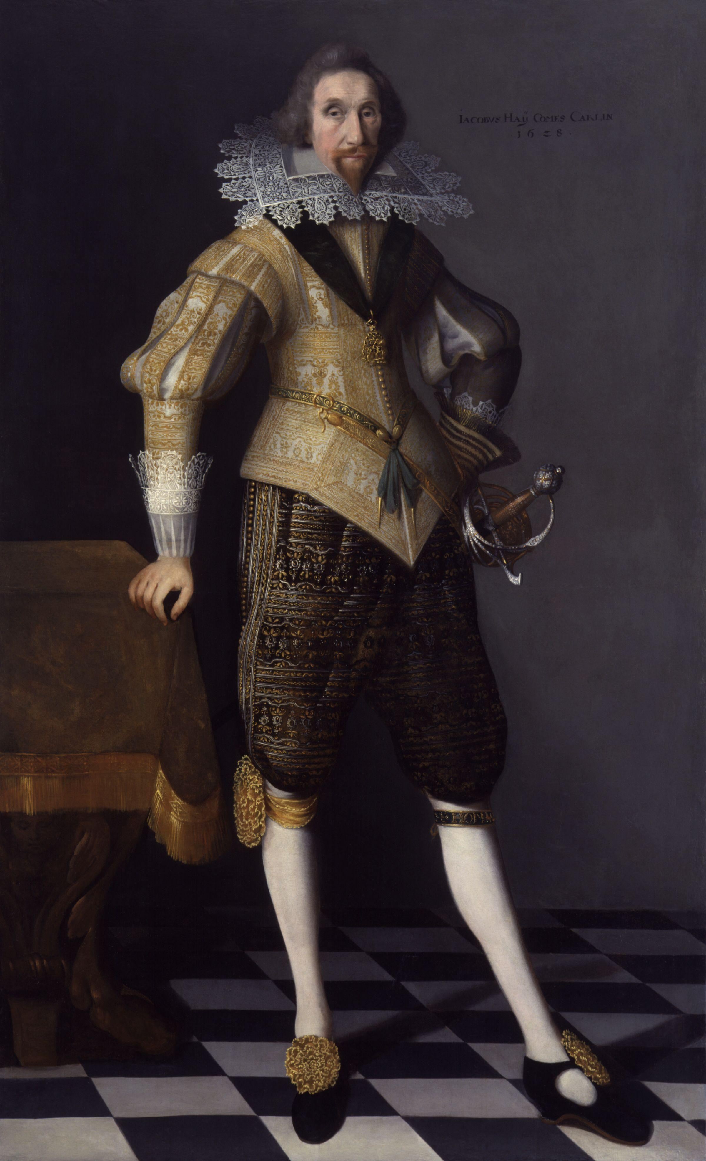 James Hay, 1st Earl of Carlisle, by unknown artist. All images in this batch are listed as "unknown author" by the NPG, who is diligent in researching authors, and was donated to the NPG before 1939 according to their website.